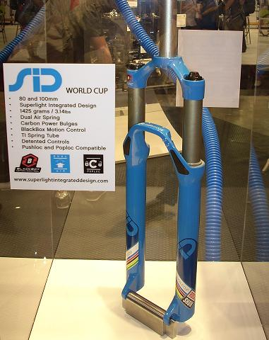 2008 Rock Shox SID World Cup mountainbike suspension fork